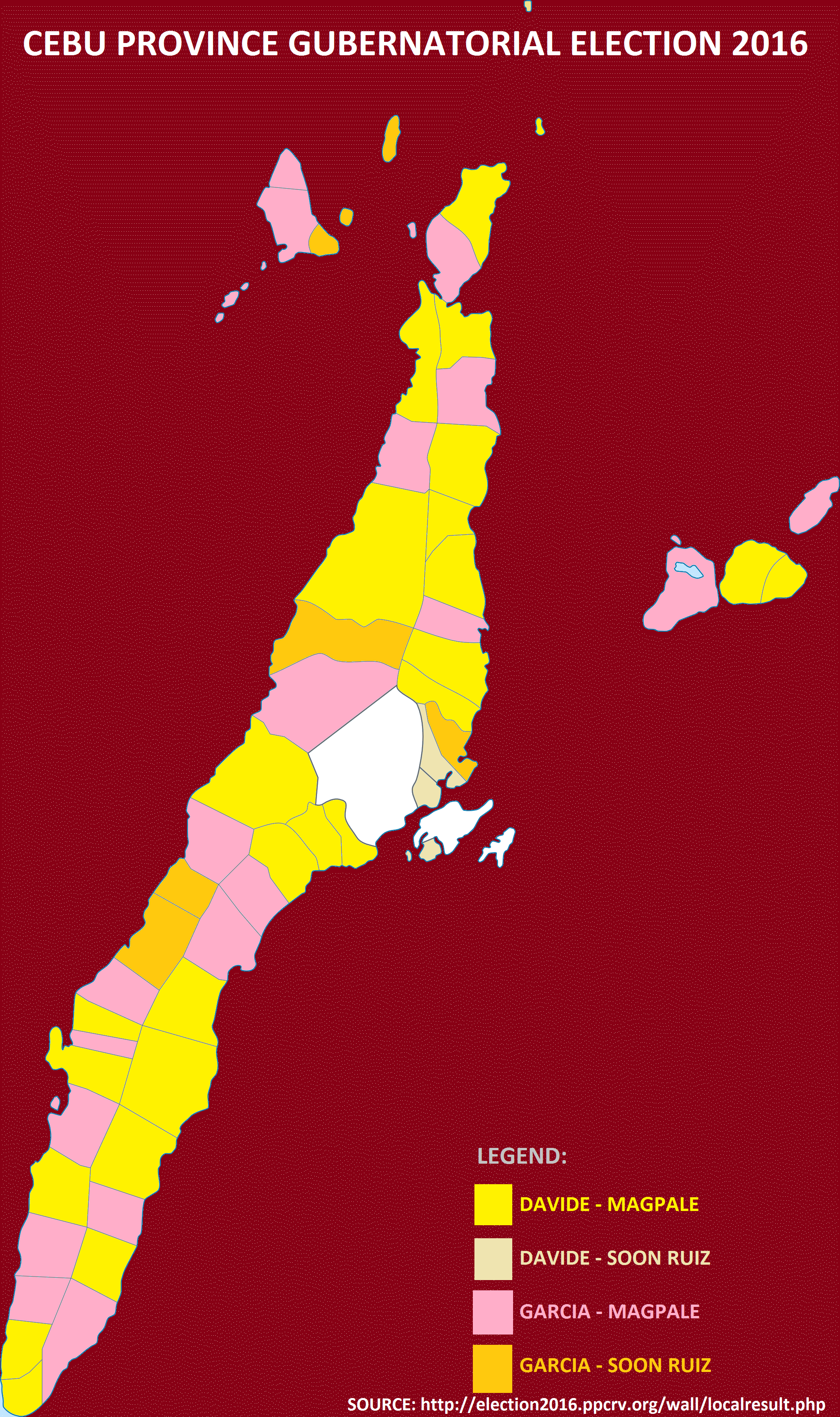 The breakdown and the result of gubernatorial race in the Province of Cebu